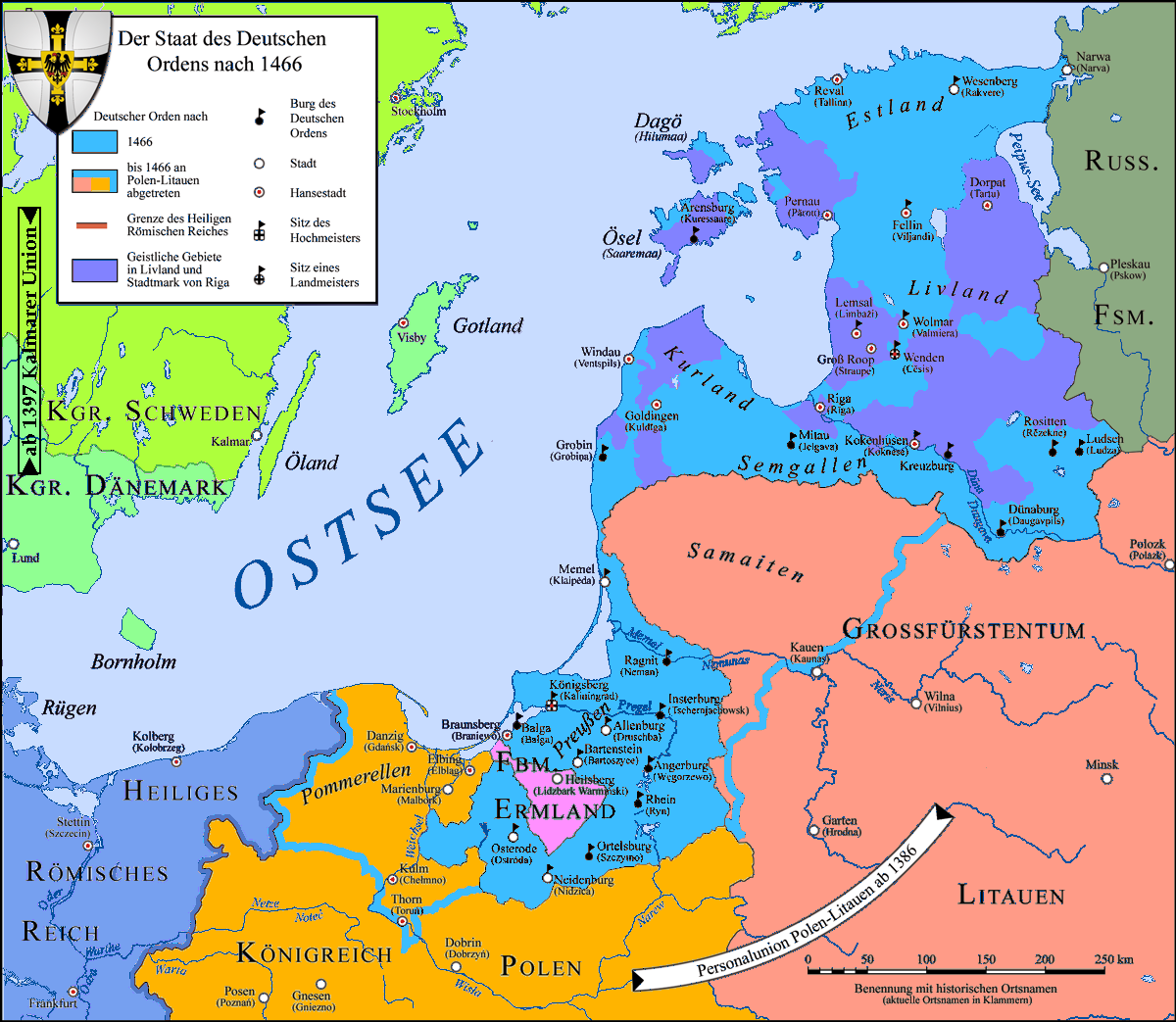 Map of the monastic state of the Teutonic Knights 1466.